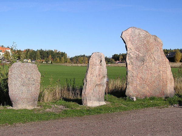 Runestones Sö 108 (left), Sö 107 (center) and Sö 109 (right) at Gredby bro, Eskilstuna.